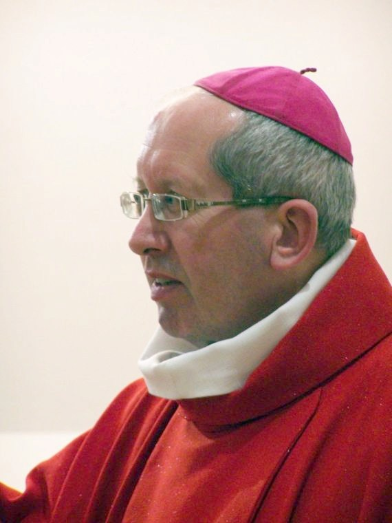 bishop Jan Niemiec